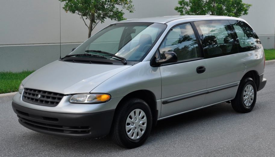 2000 Plymouth Voyager base 3-door